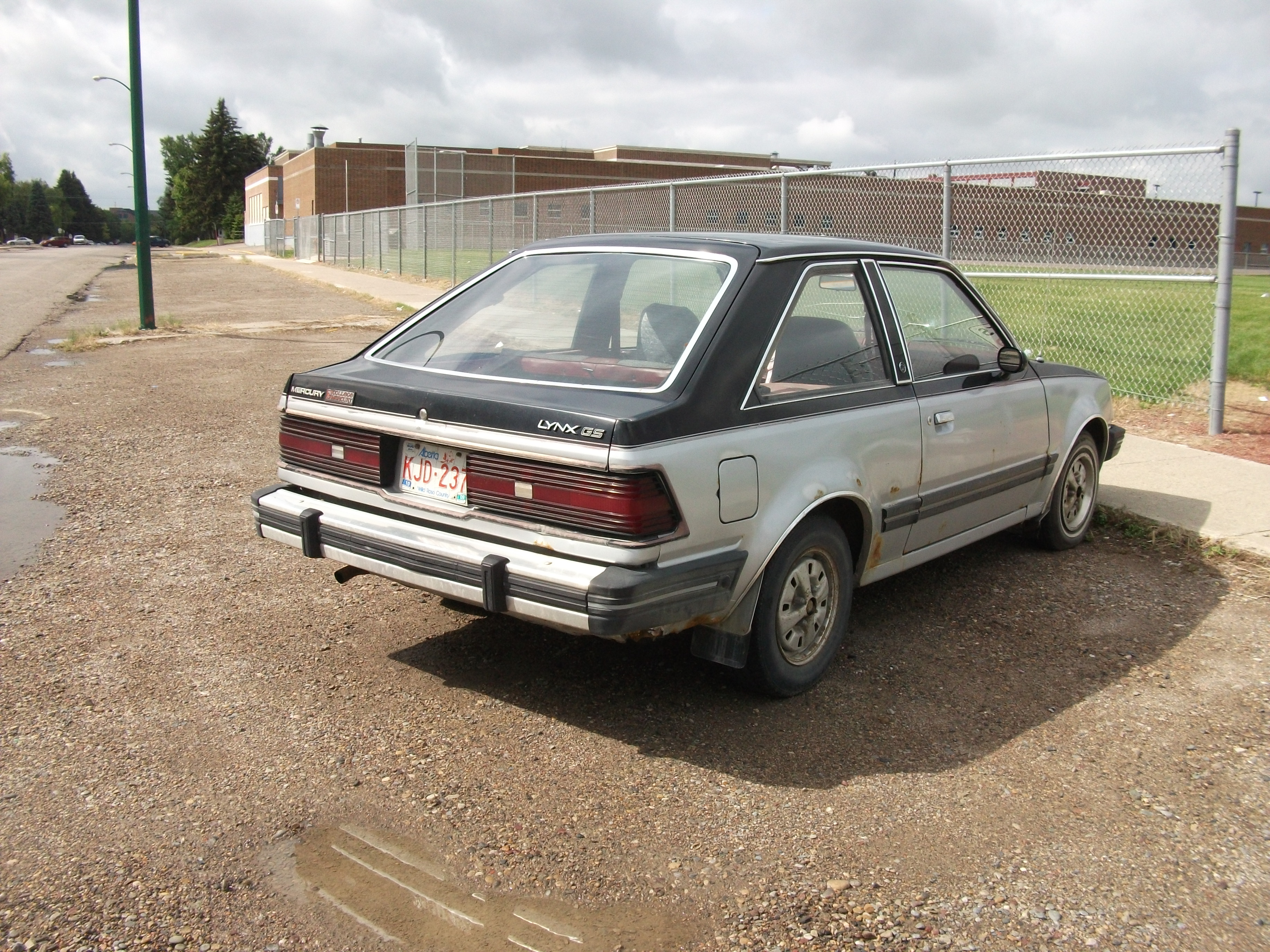 Rear 3/4 view of 1983-1985 Mercury Lynx GS.